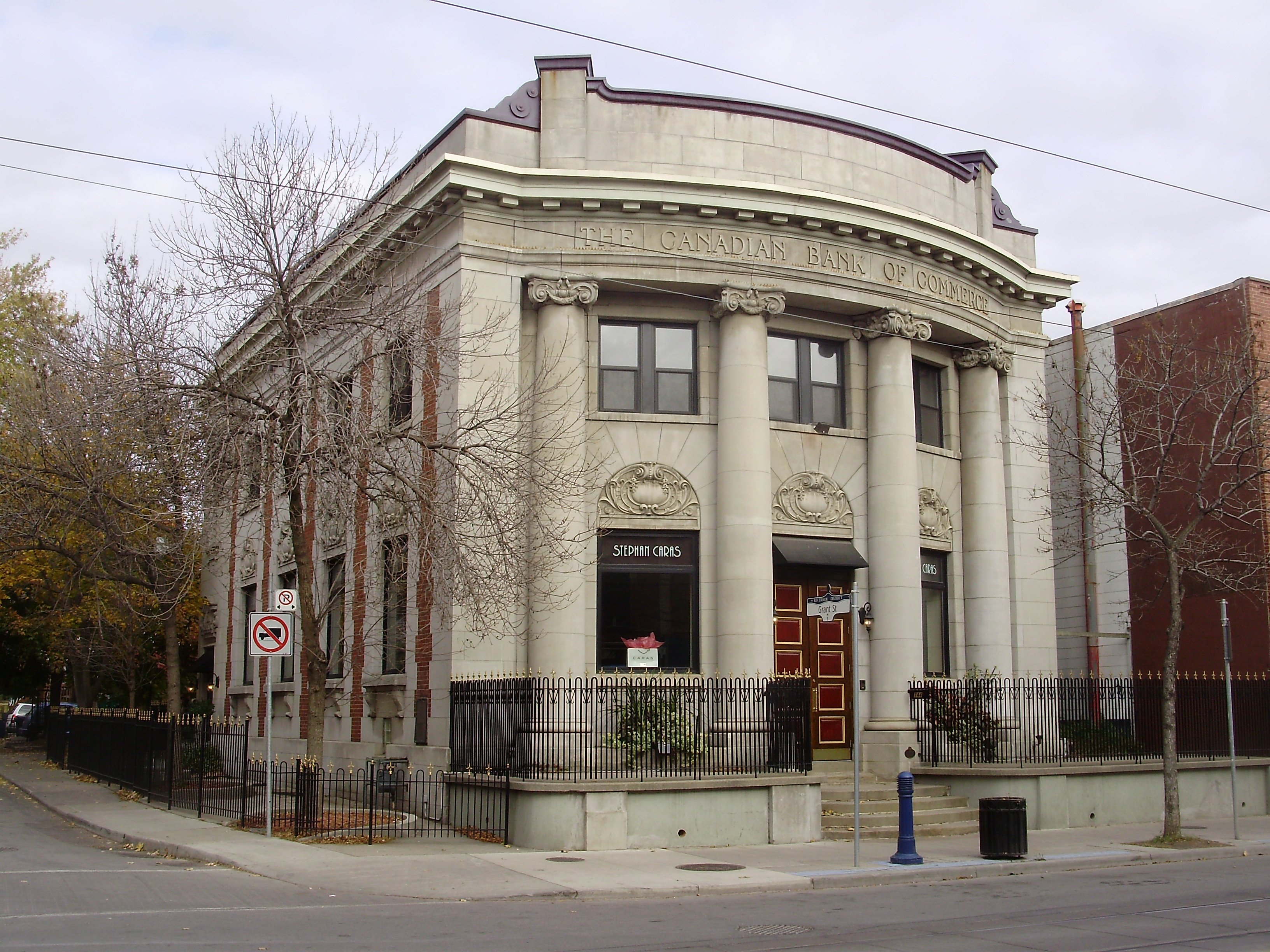 A former branch of the now-defunct Canadian Bank of Commerce, located at 744 Queen Street East in Toronto, Ontario, Canada.